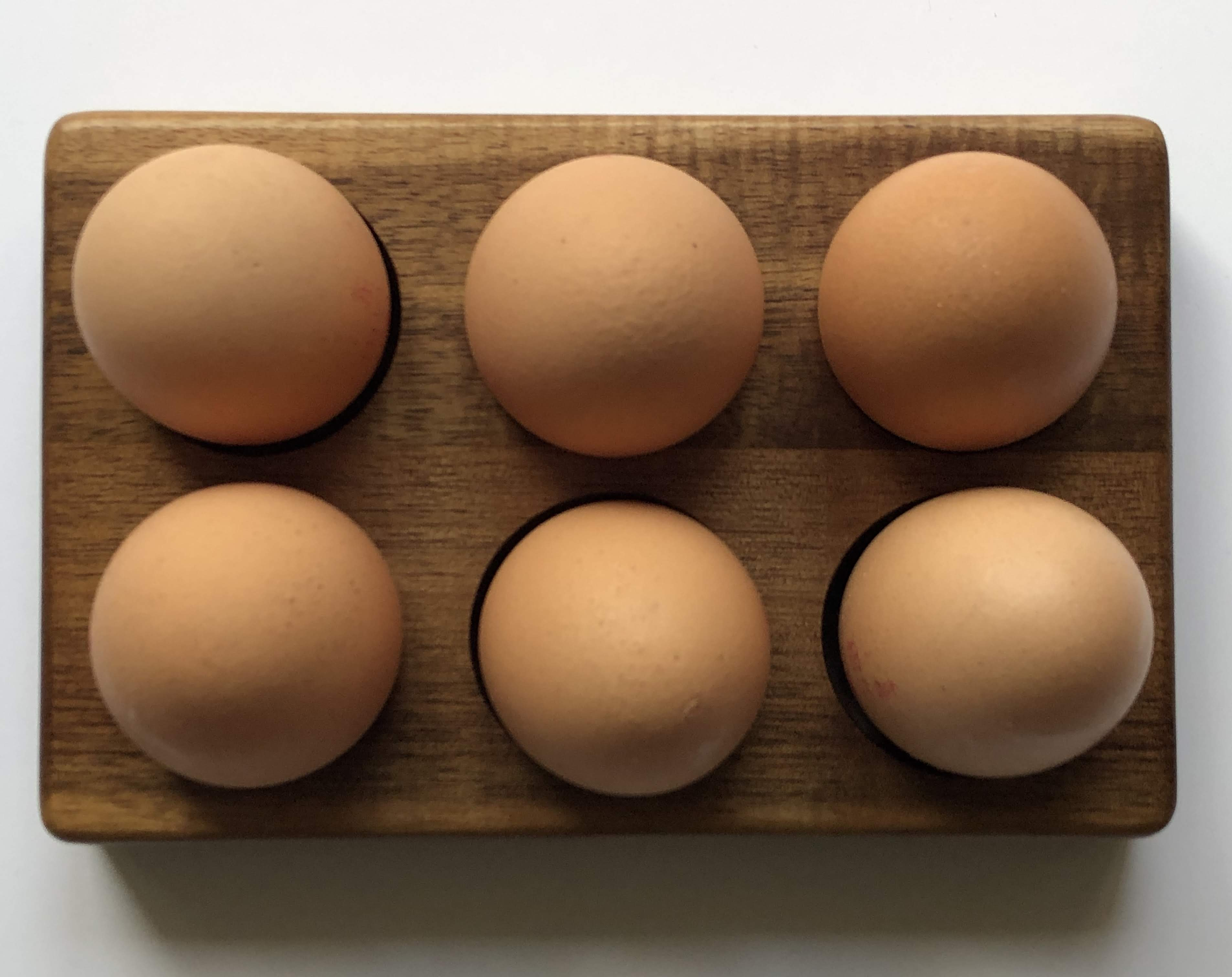 The picture was on a white background, the eggs were from Sainsbury's